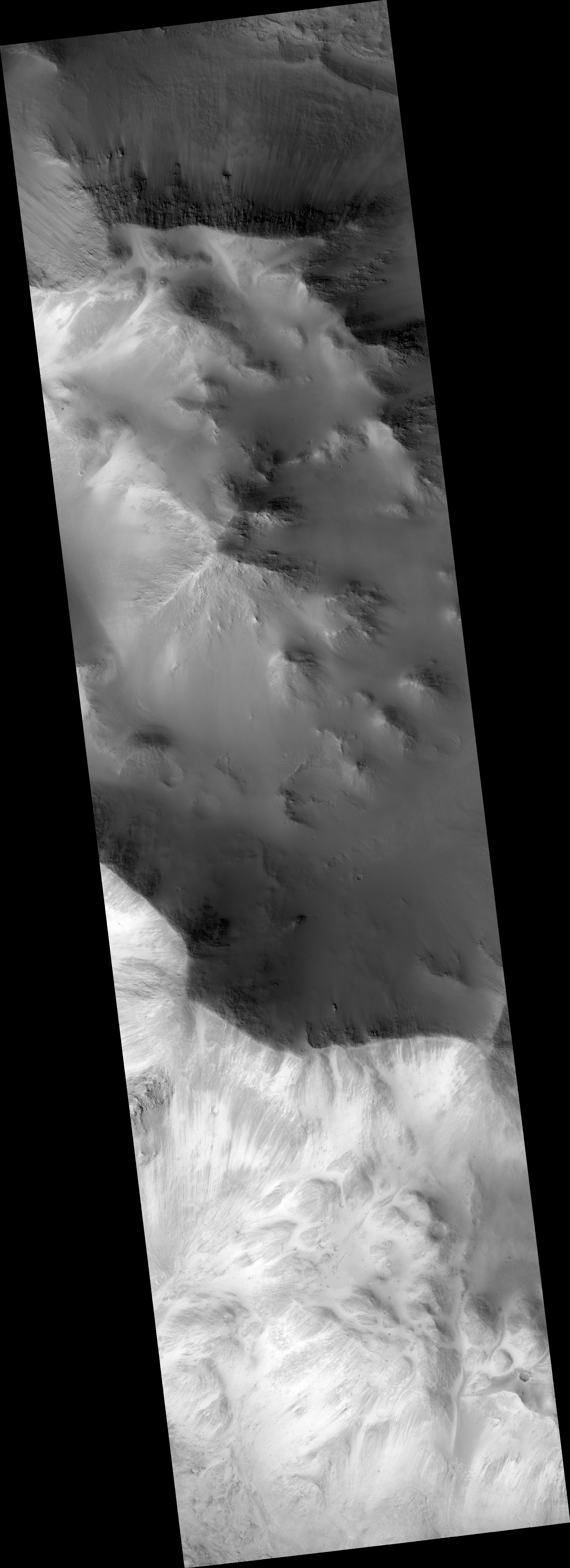 Radau Crater central peak, as seen by hirise. Location is 16.9 N and 355.2 E.